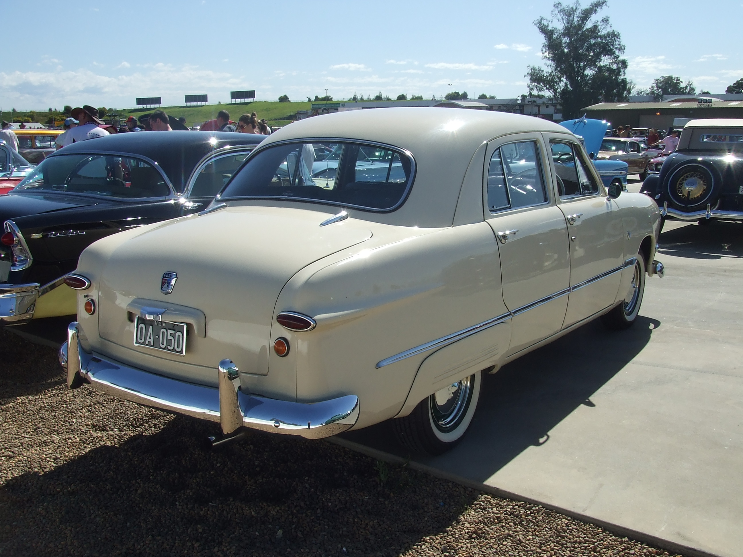 Ford Custom